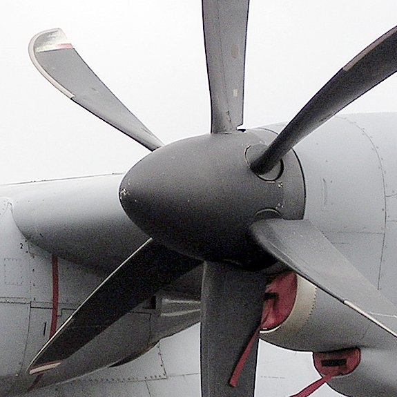 Details of image Image:Hercules.propeller.arp.jpg with clipping and brightening done to show that it's a controllable pitch propeller.